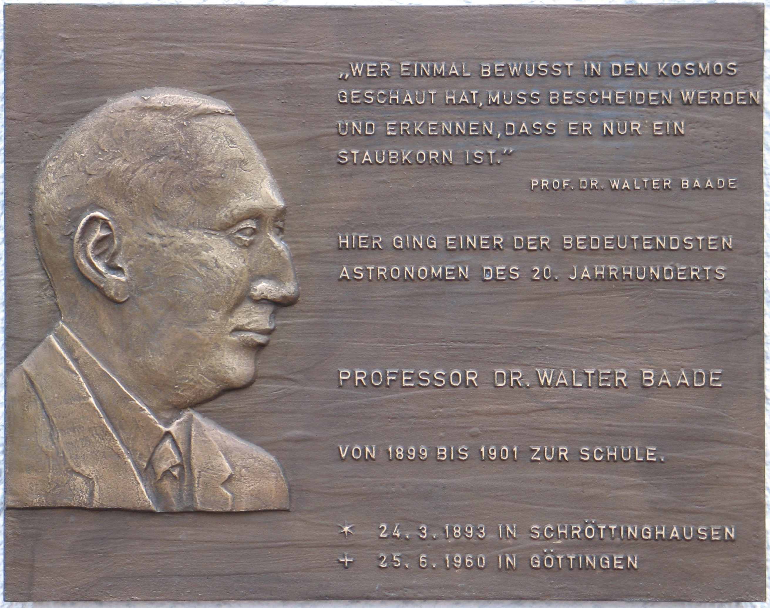 Walter Baade (1893-1960), memorial plaque for one of the most inspiring astonomers and astrophysicists attached in 2007 to the school building (now museum of the village fire brigade) at his birthplace Schröttinghausen, part of Preußisch Oldendorf, Germany. Since 1931 Baade worked with the largest telescopes in California. To his memory even in the year 2000 one of the Magellan Telescopes in Chile was given the name Walter Baade Telescope.